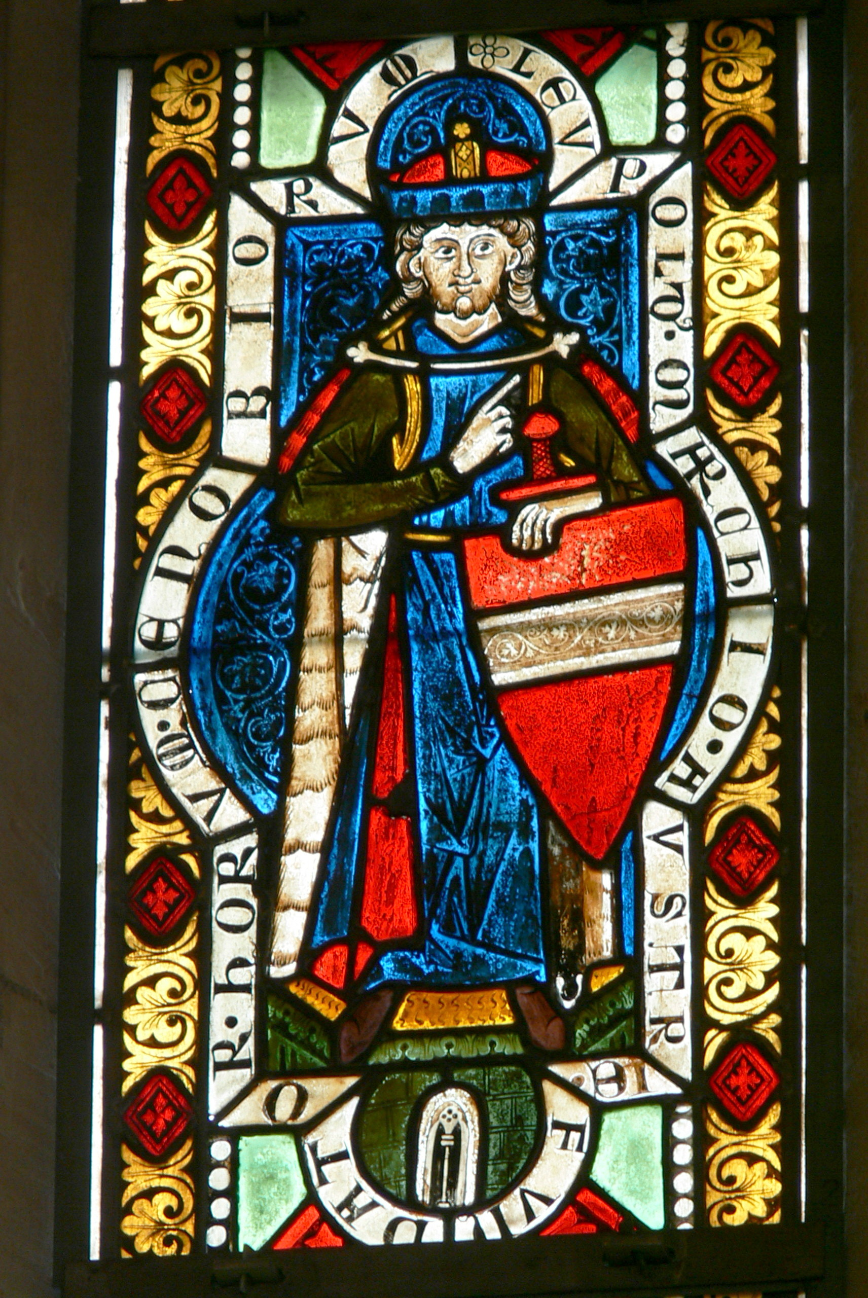 Heiligenkreuz abbey ( Lower Austria ). Lavabo: Babenberg windows ( 1290s ), showing members of the house of Babenberg: Leopold III, margrave of Austria.